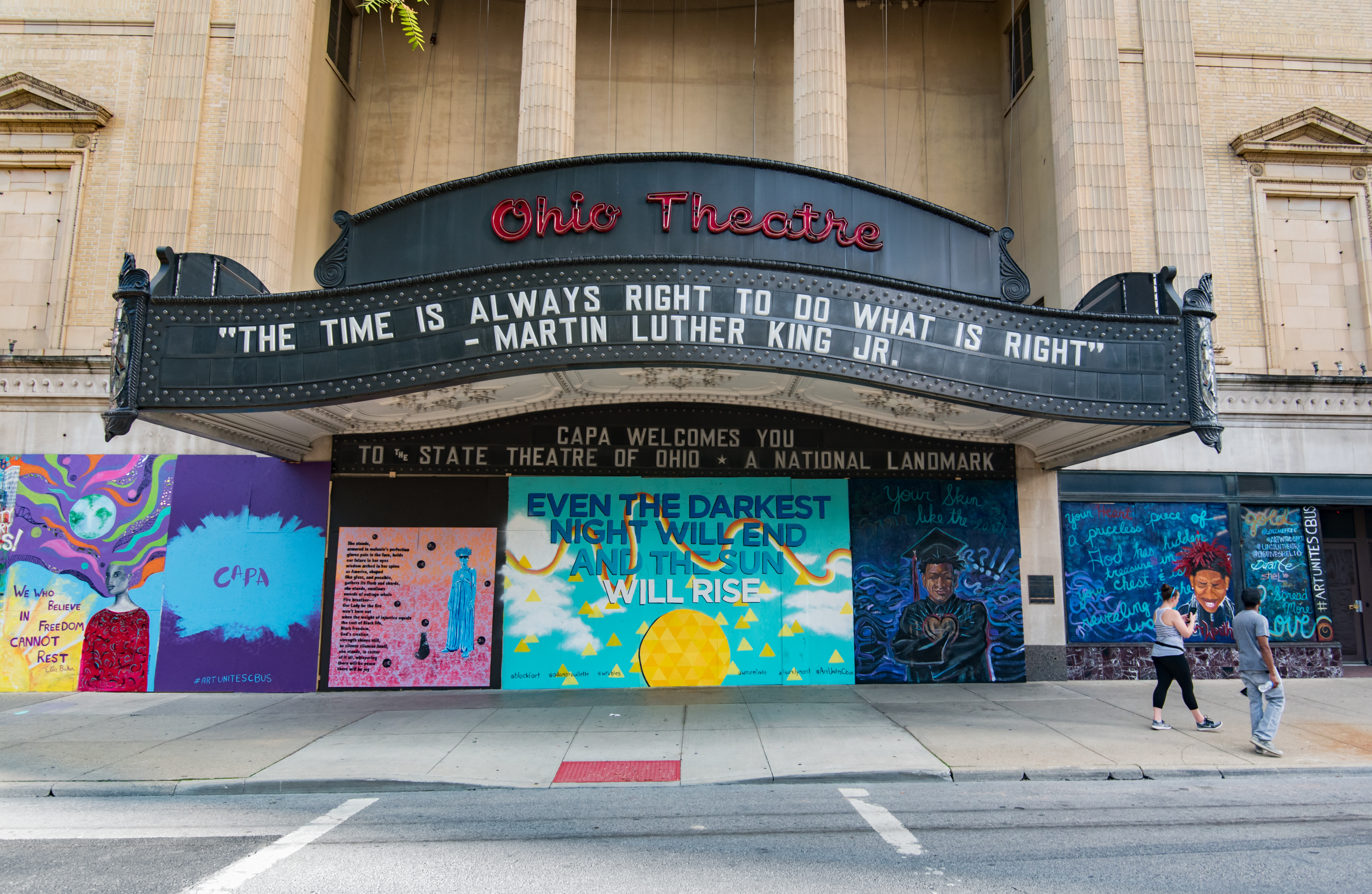 George Floyd protest media, Columbus, Ohio.